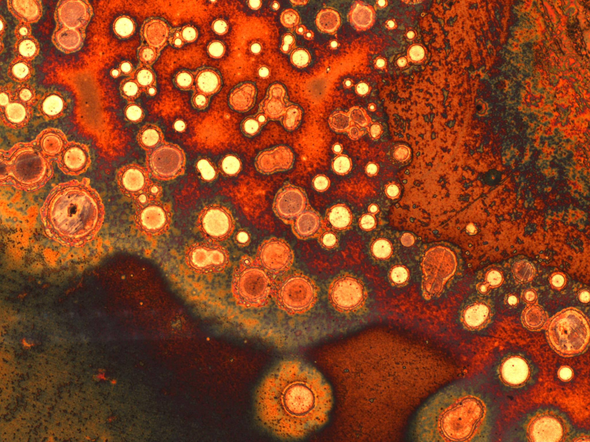 Corrosion of bismuth-aluminum alloy in water. This alloy was prepared by magnetron sputtering method. Optical microscopy image, 1.6x1.2 mm in size.